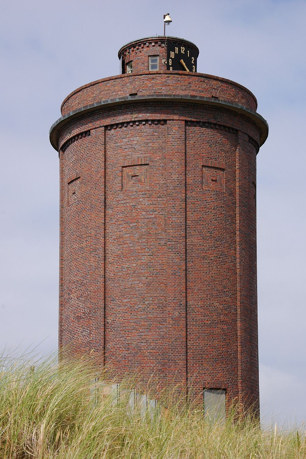 Water tower of Juist Island, Eastern Frisia